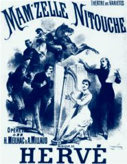 Illustration of operetta